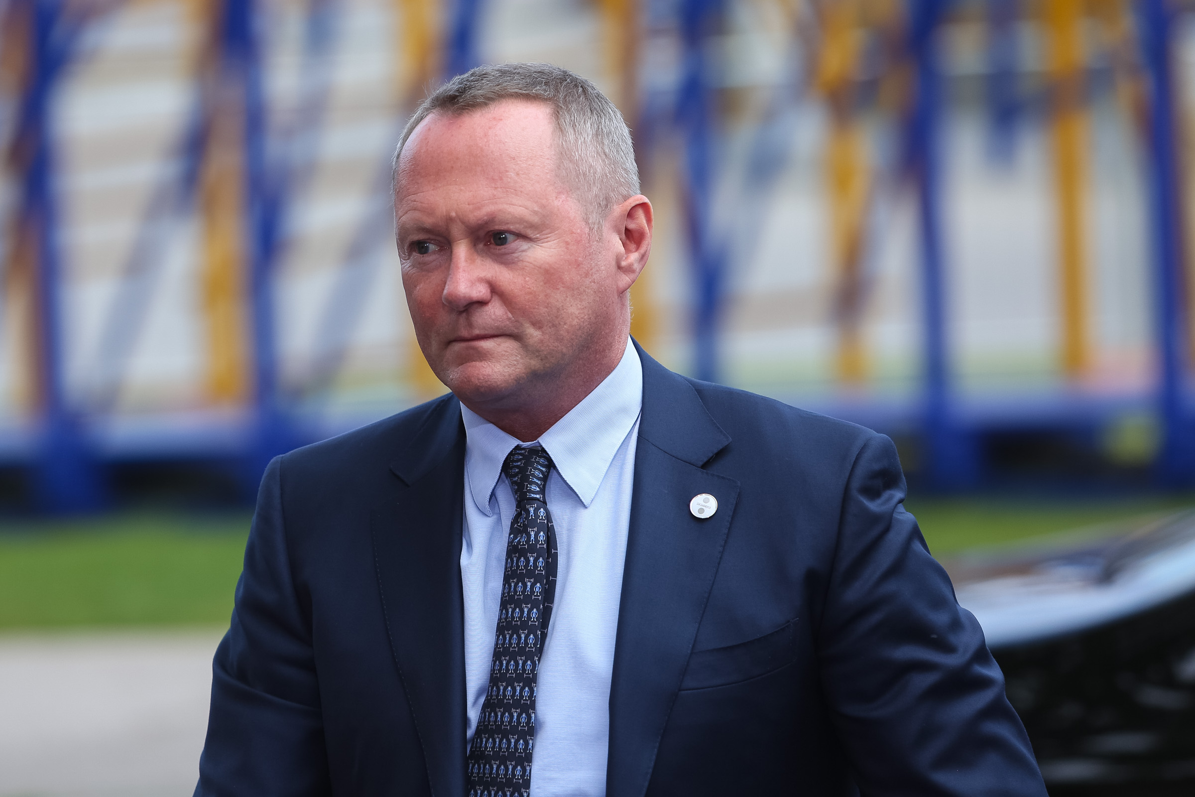 Michael O'Flaherty, Director, EU Agency for Fundamental Rights, FRA